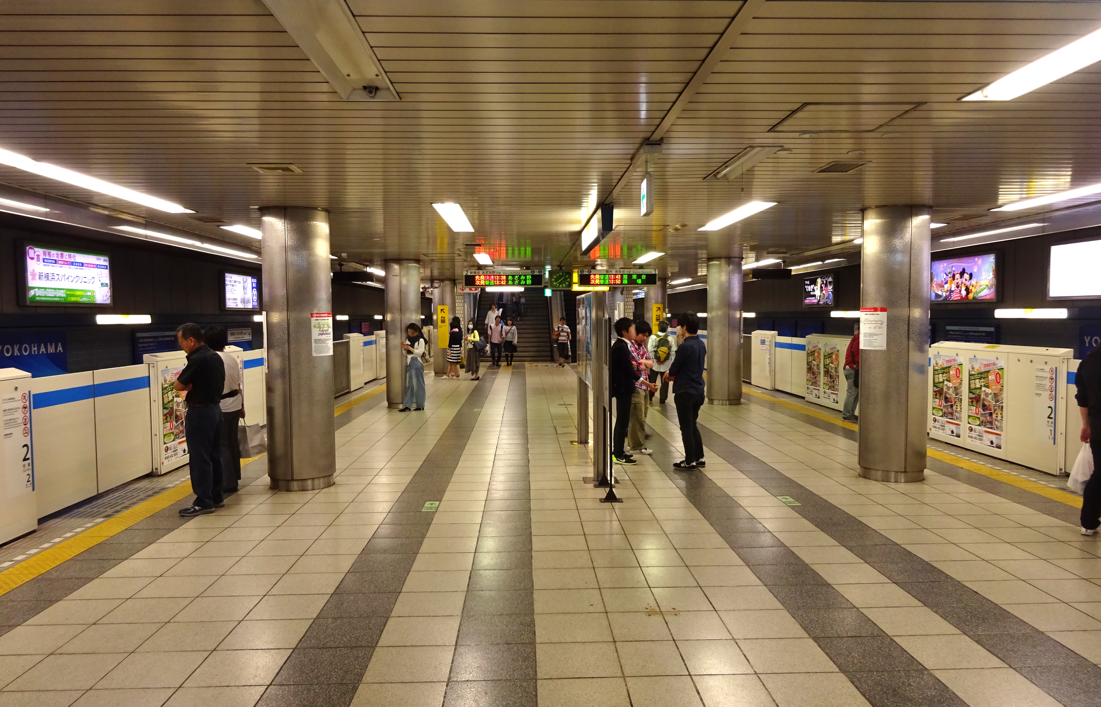 Platforms of Yokohama Station(Yokohama Municipal Subway)